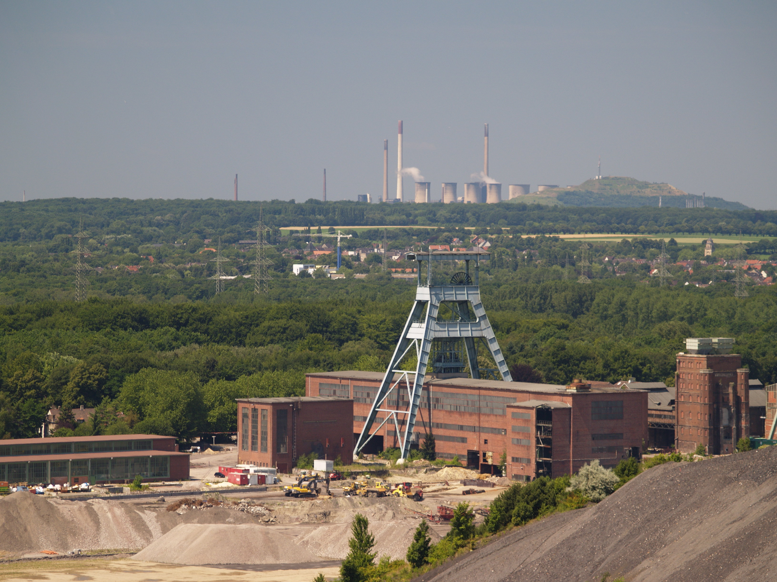 Hoheward view on coal mine Ewald